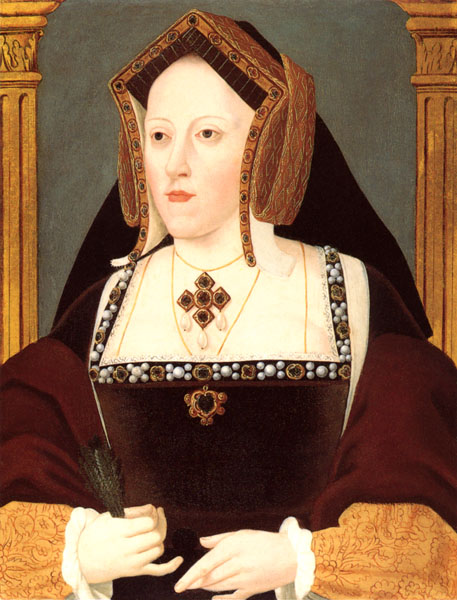 Catherine of Aragon